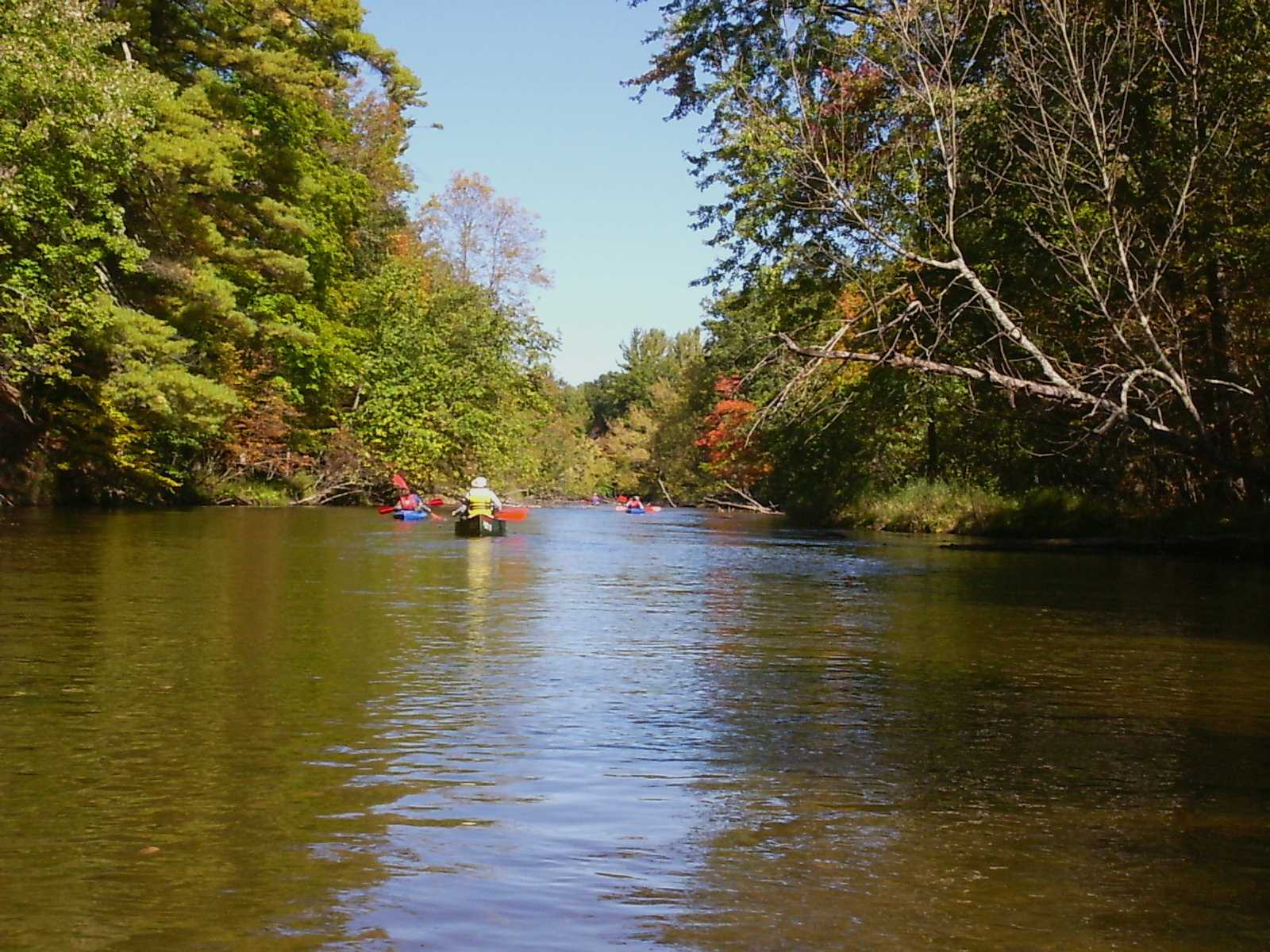 The Pere Marquette River, in Manistee National Forest in the autumn.